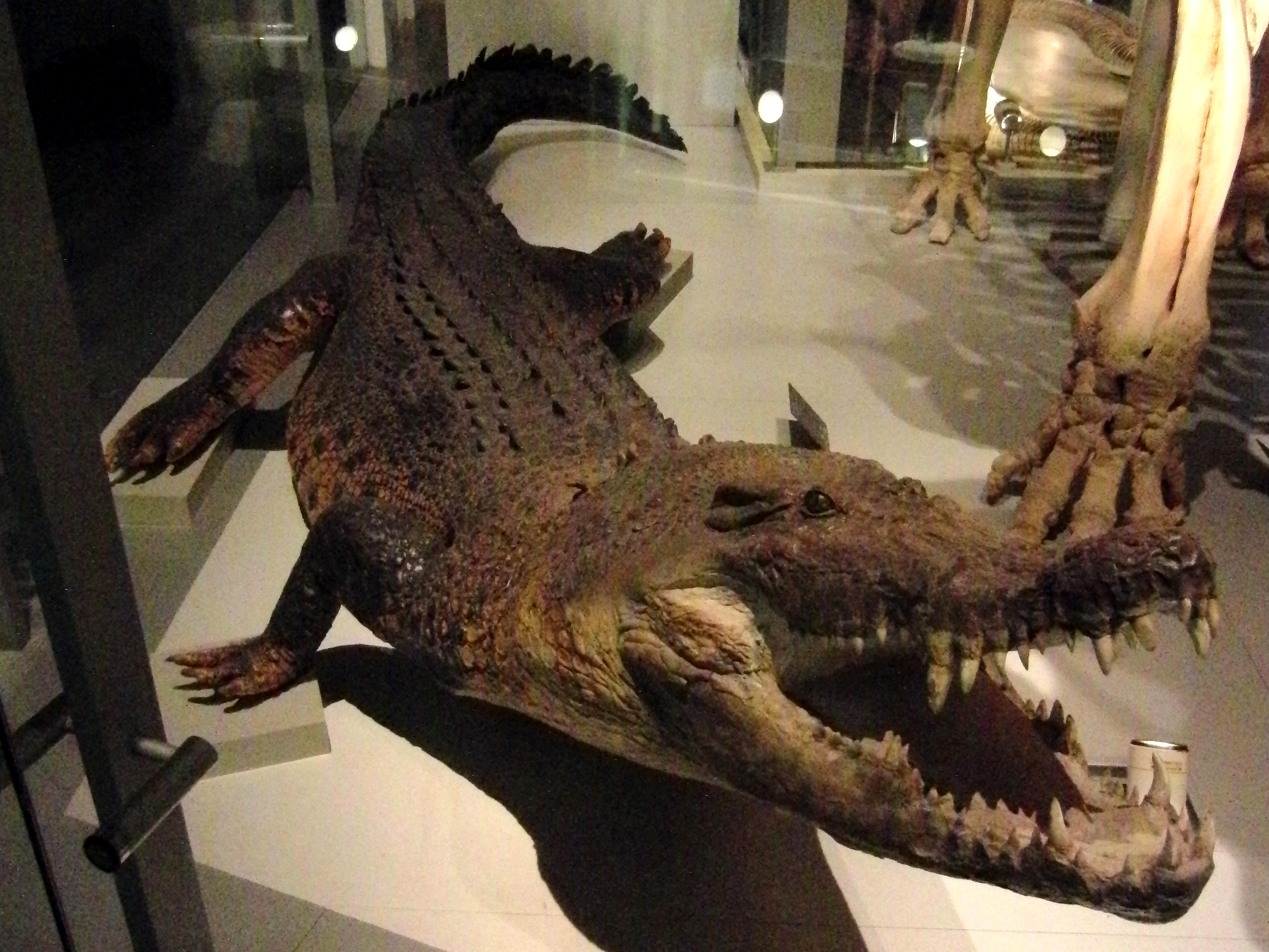 Stuffed specimen of Saltwater crocodile (Crocodylus porosus). Exhibit in the National Museum of Nature and Science, Tokyo, Japan.